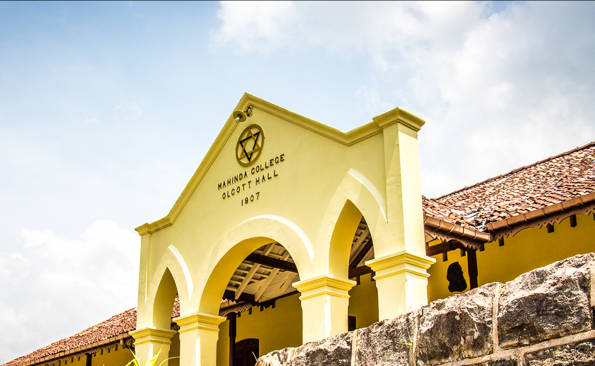 Sacred Olcott Hall of Mahinda College, Galle - Sri Lanka